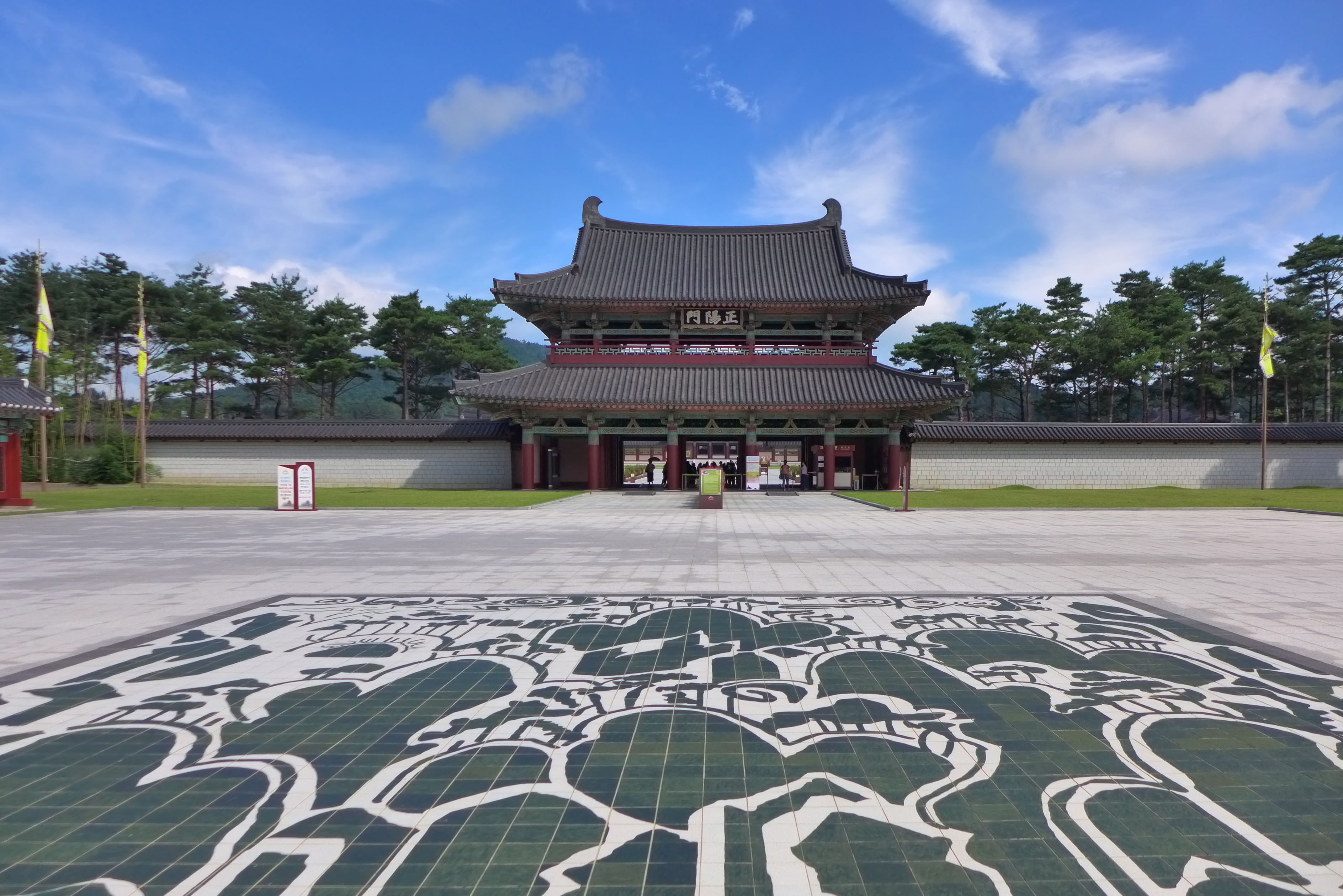 Baekje Cultural Land, Buyeo-gun, Chungcheongnam-do, South Korea